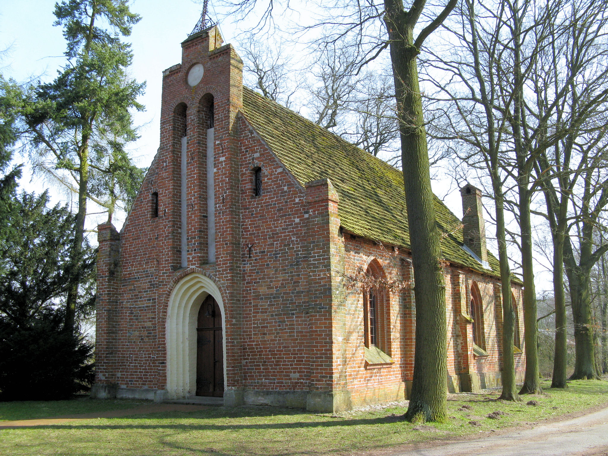 Church in Kraak, district Ludwigslust, Mecklenburg-Vorpommern, Germany